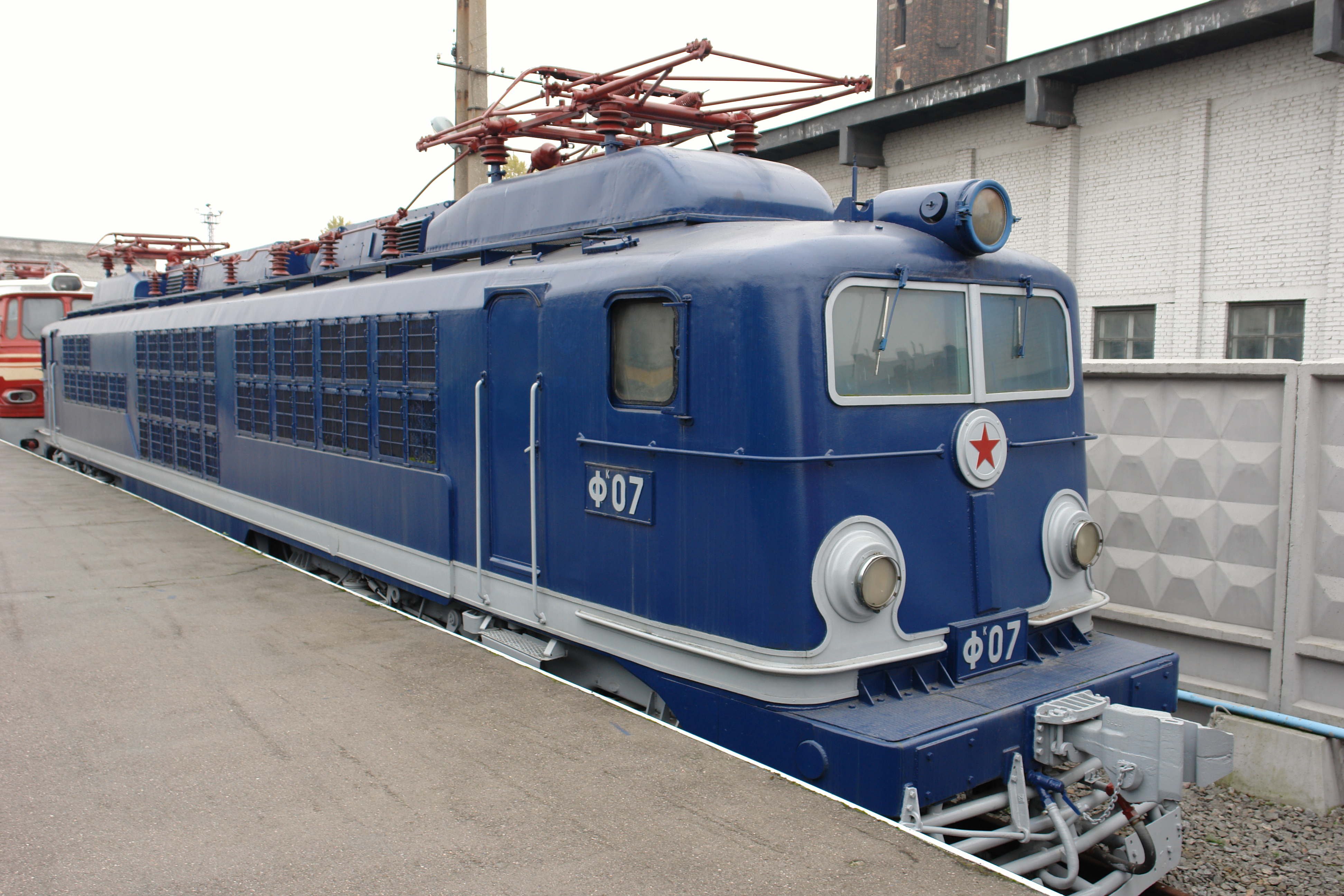 Freight electric locomotive FK-07 Current system25 kV AC, 50 HzWeight in working order138 t.Design speed100 kphPower (hourly rating)4740 kW Built by French companies for the USSR in 1959. In all 50 electric locomotives of class F were built in 1959-1960 in three different versions. During the 1970s the locomotives were reclassified as FK following the replacement of their mercury-arc rectifiers with silicon rectifiers. They were included in the stock of the Krasnoiarsk Railway until 1987. The locomotive is part of the collection of the Central Museum of Railway Transport.